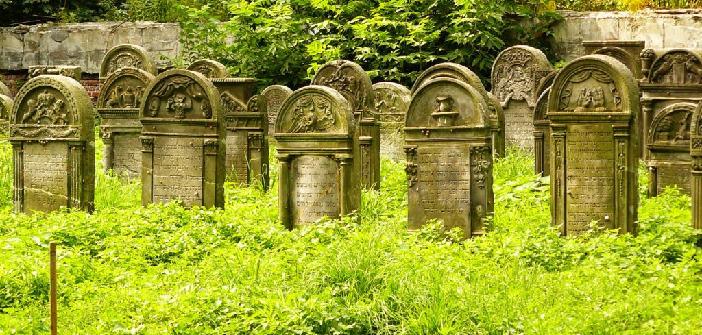 old jewish graveyard, poland, warsawa, for better resoultion ask